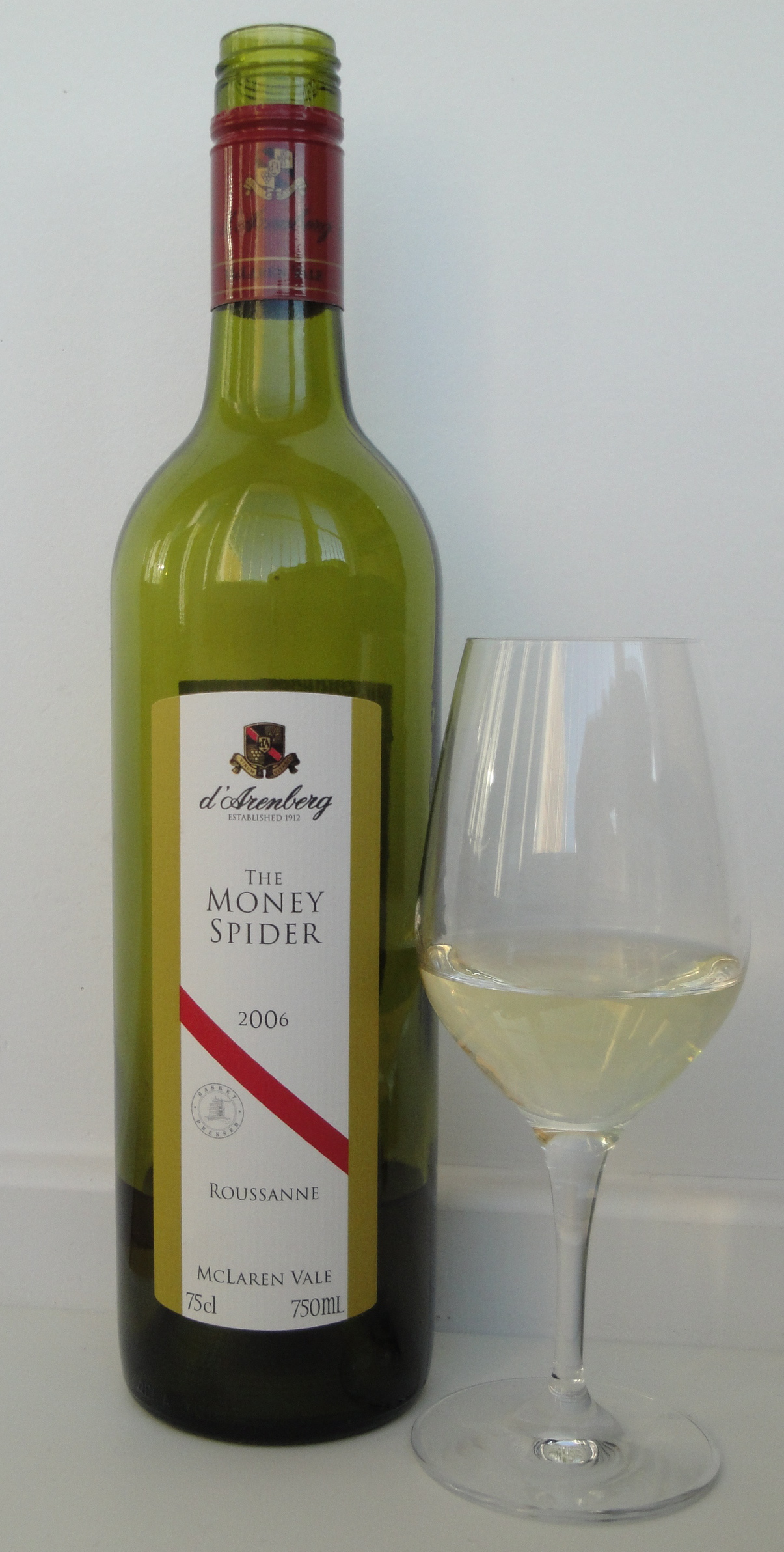 d'Arenberg Money Spider Roussanne 2006, a wine from McLaren Vale, South Australia